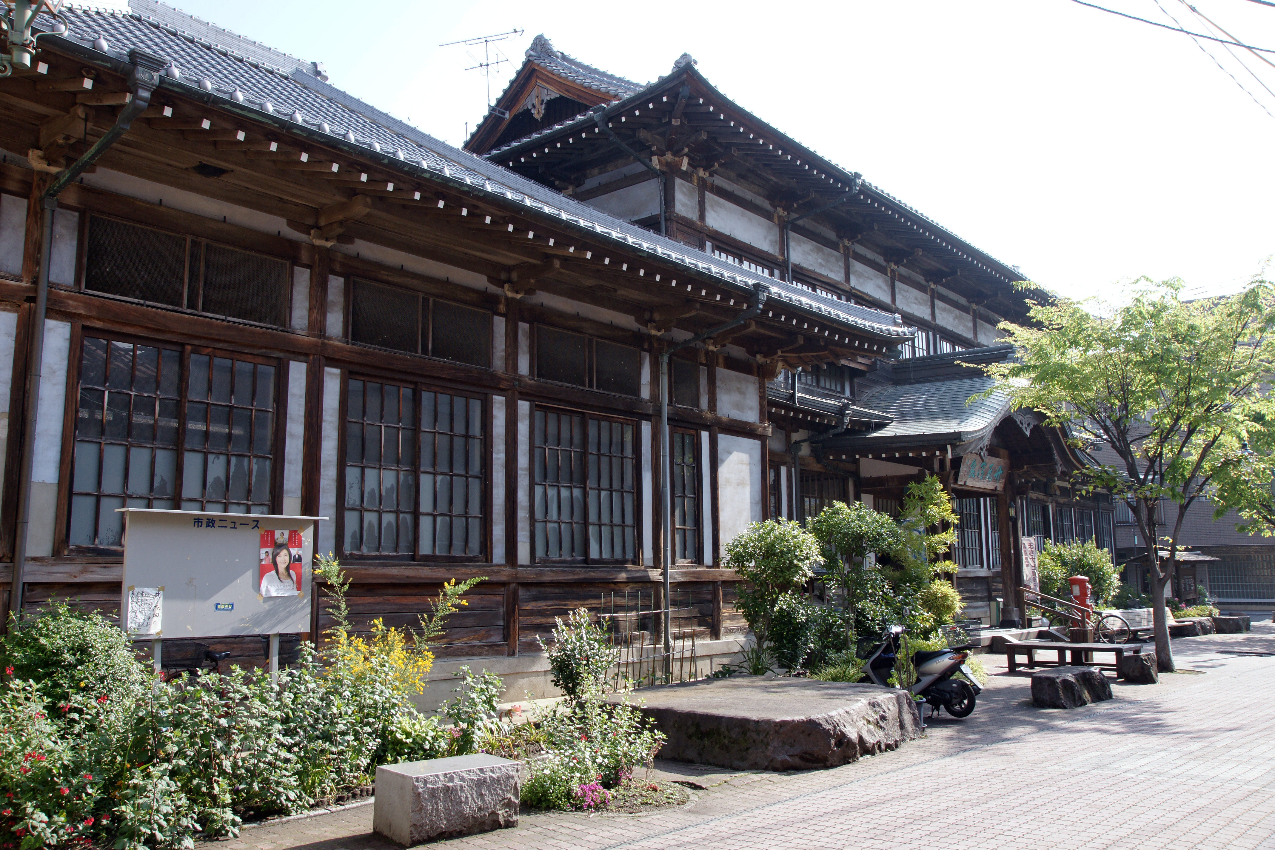 Takegawara Onsen in Beppu Onsen, Beppu, Oita prefecture, Japan